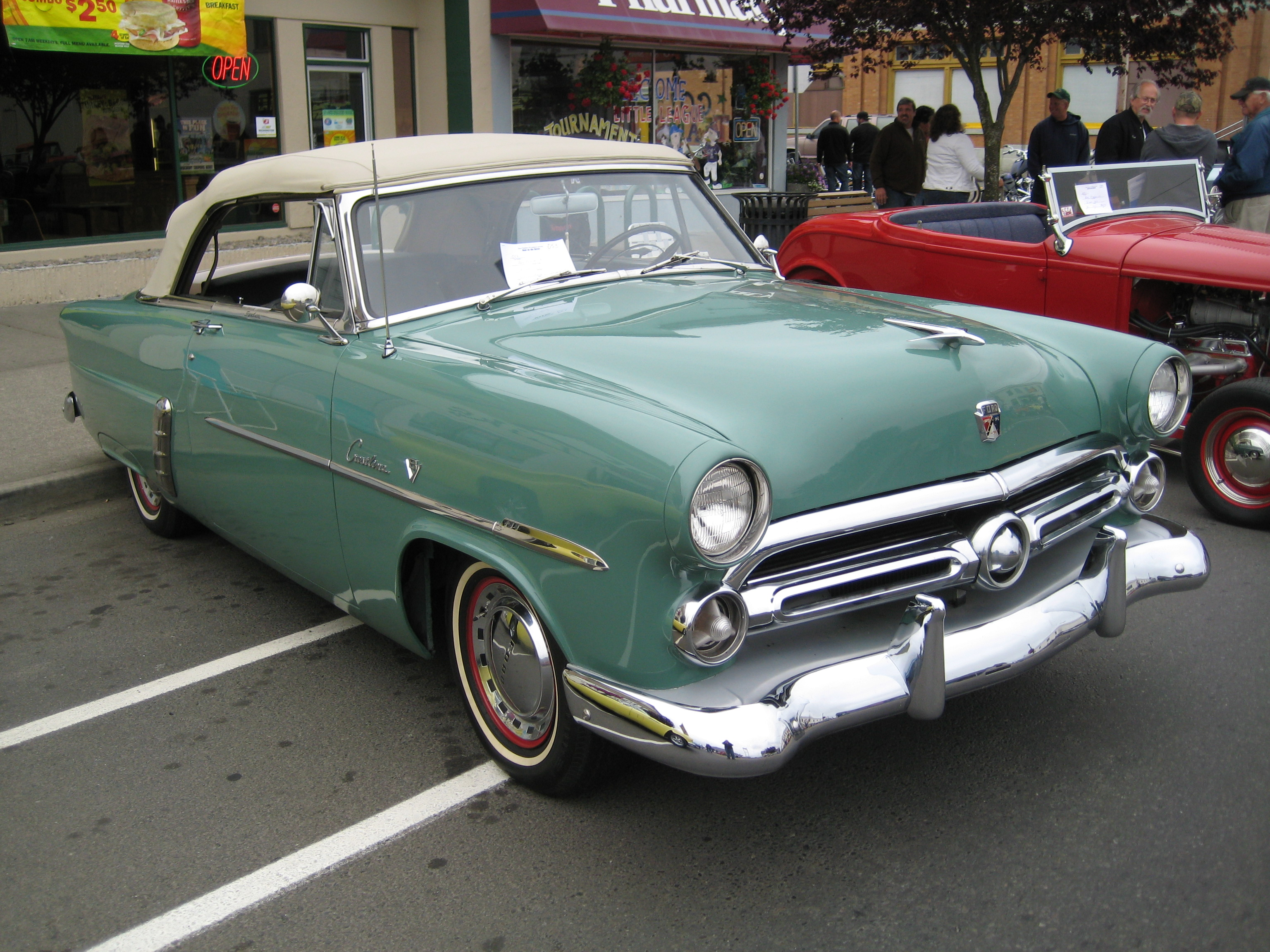 car show on the street on a summer Saturday in Elma, Washington.